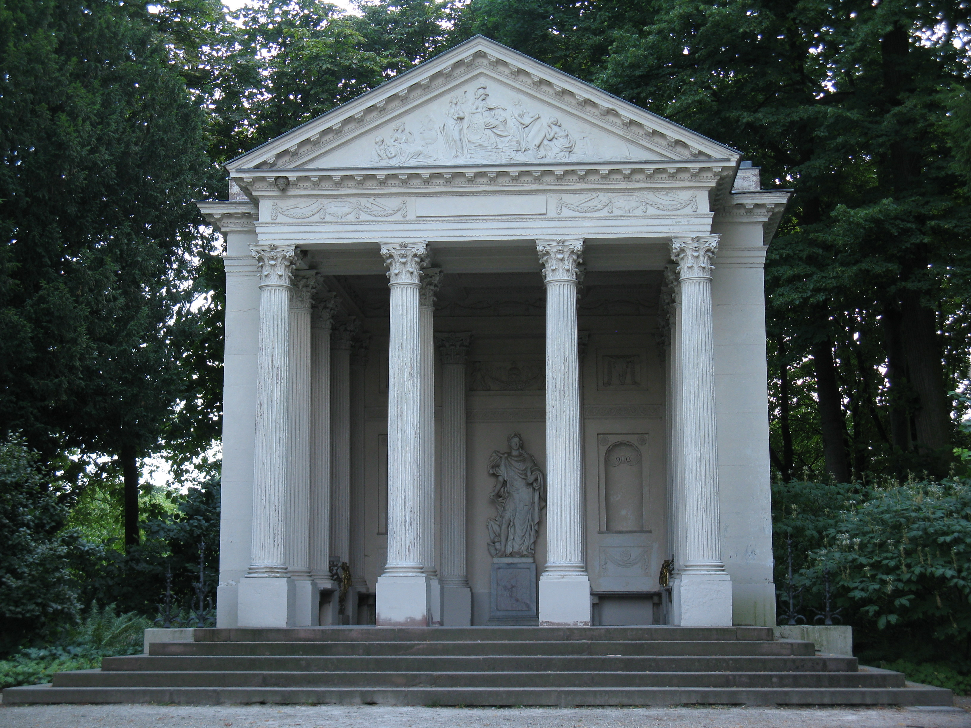 Schwetzingen, Germany, palace garden